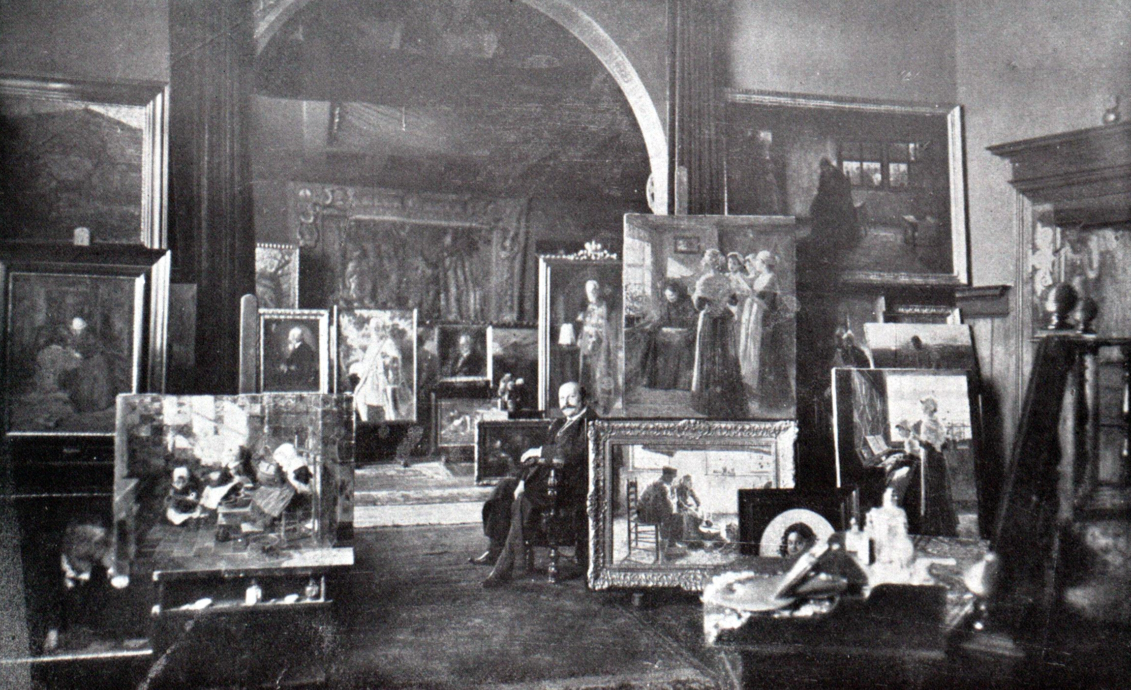 Walther Firle, German painter in his studio; 1917